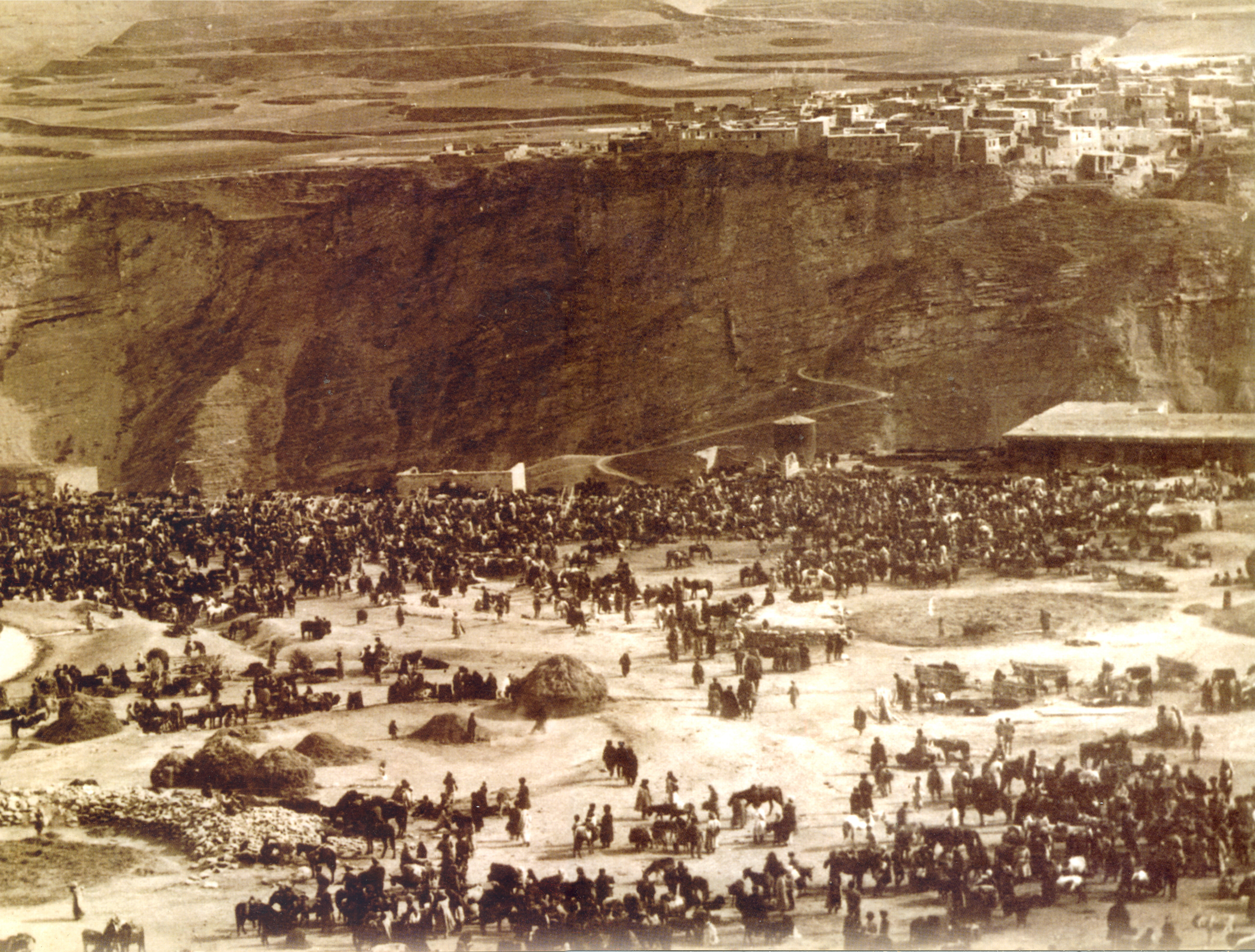 На переднем плане базар с. Кумух, с. Хури находится на заднем плане. Фото IXX в.